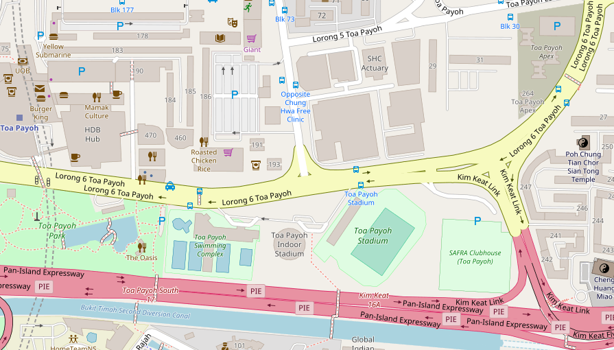 Toa Payoh OSM Map